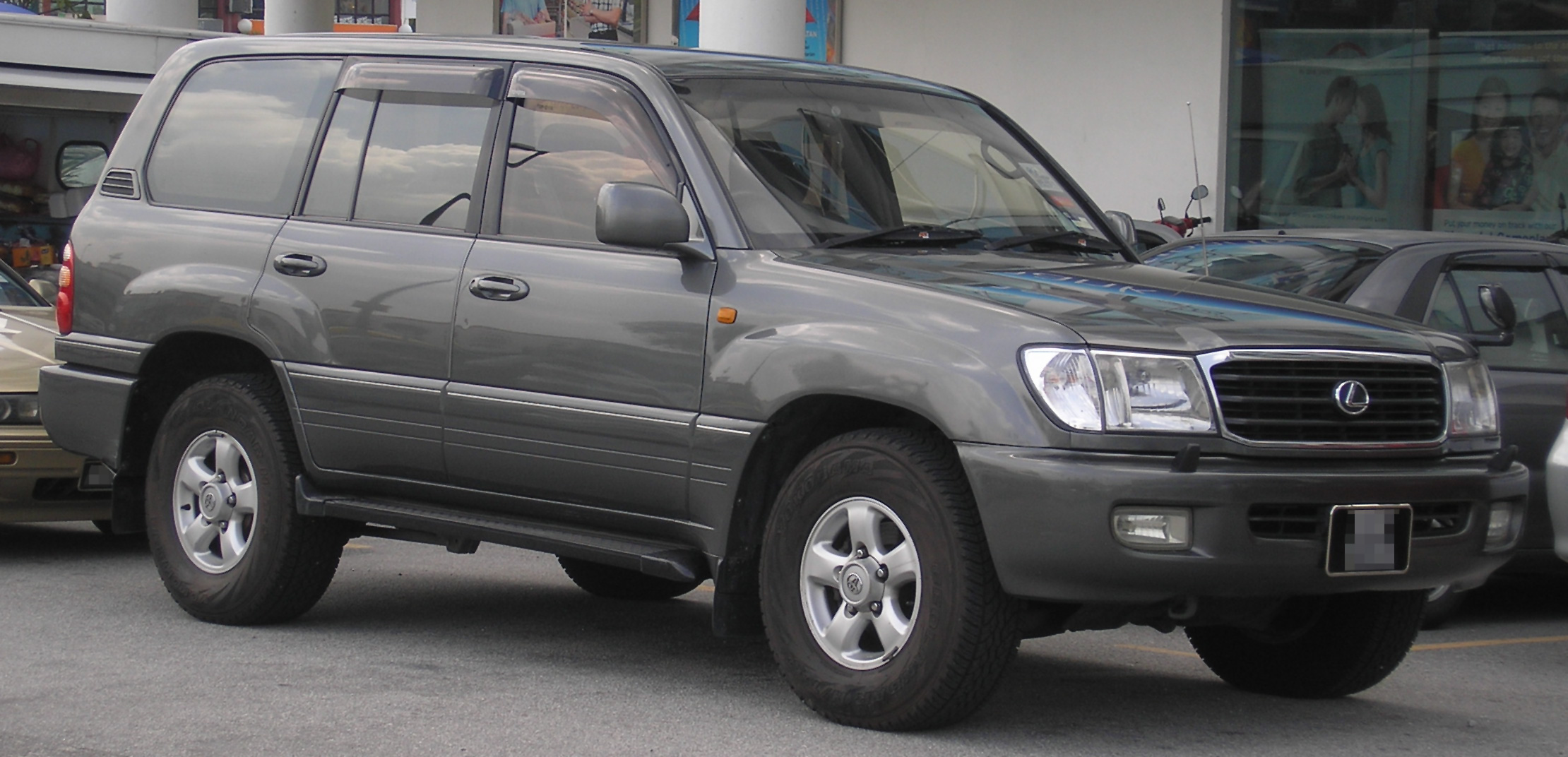 Front-side shot of a Toyota Land Cruiser (second generation), with Lexus badges, in Serdang, Selangor, Malaysia.